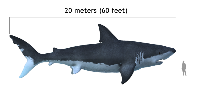 Carcharodon megalodon size compasison with man : Dinosaur Zoo